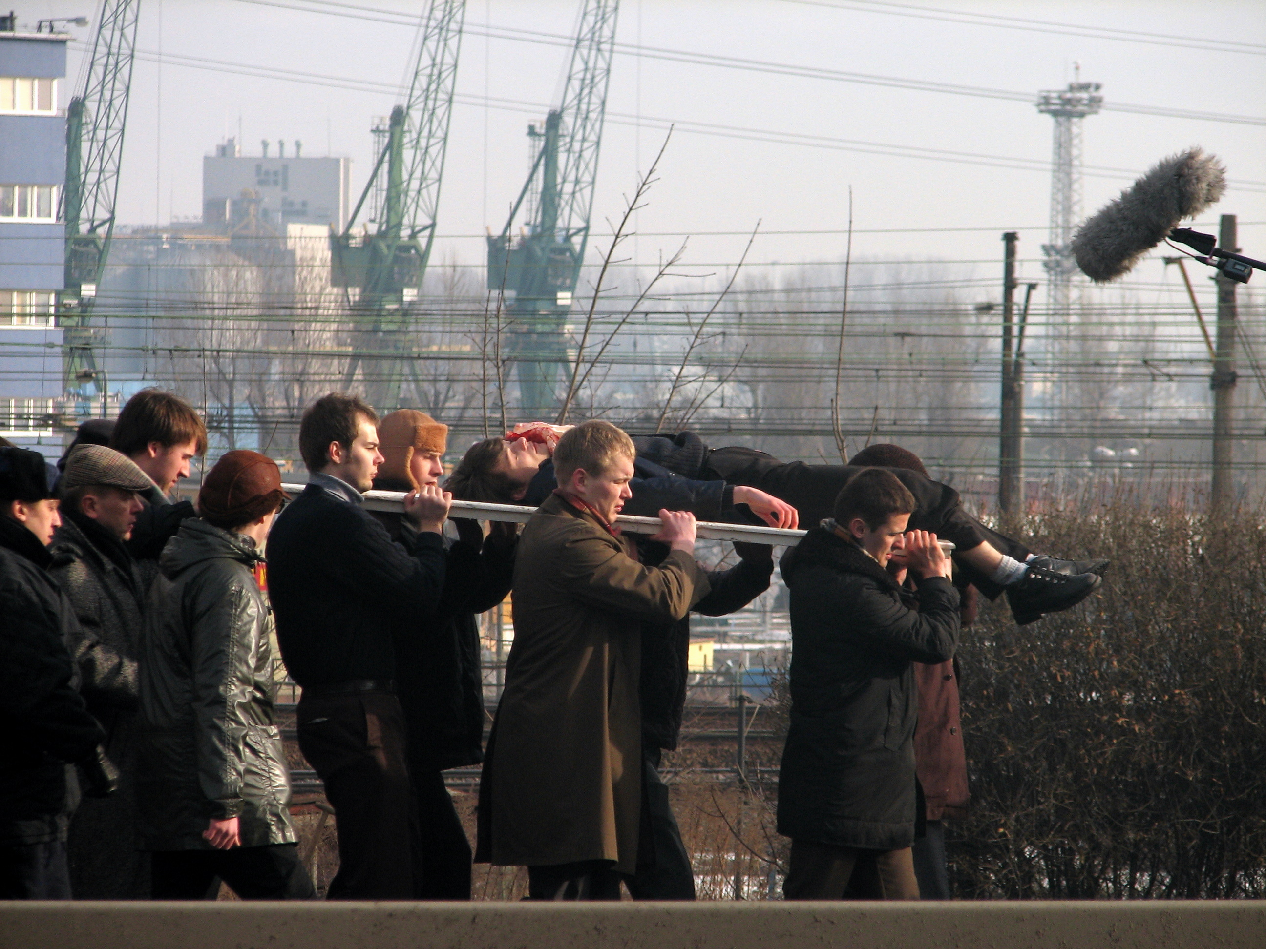 Filming of "Black Thursday" at Morska Street, Gdynia. People on this picture are actors, extras, and film crew. "Black Thursday" is a film about Polish 1970 protests.